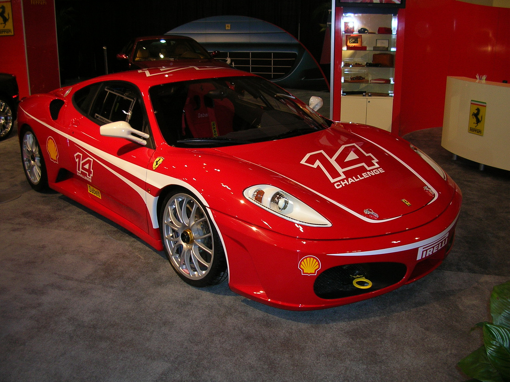 Ferrari Challenge Stradale